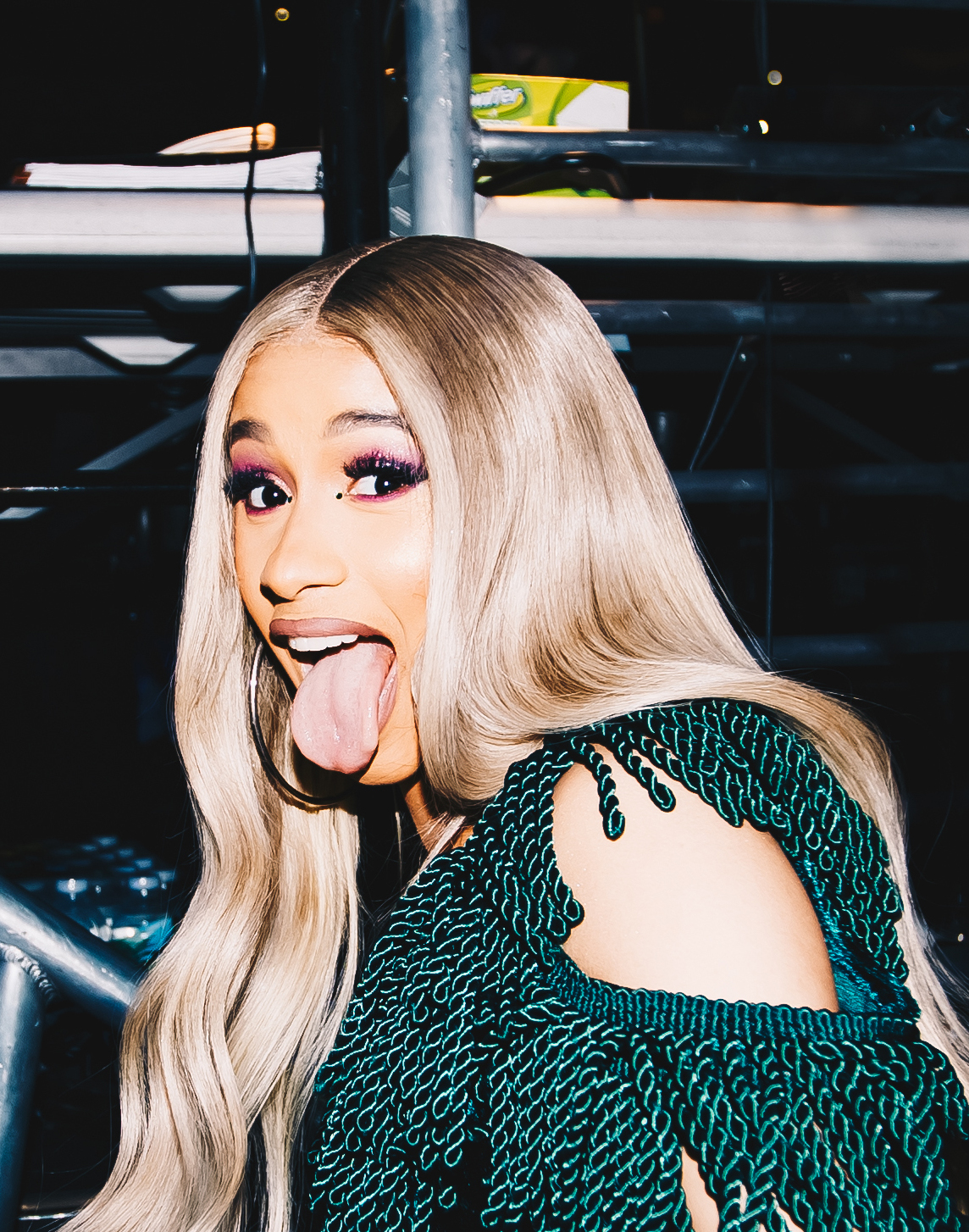 Cardi B photo